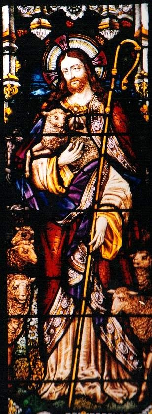 English stained glass